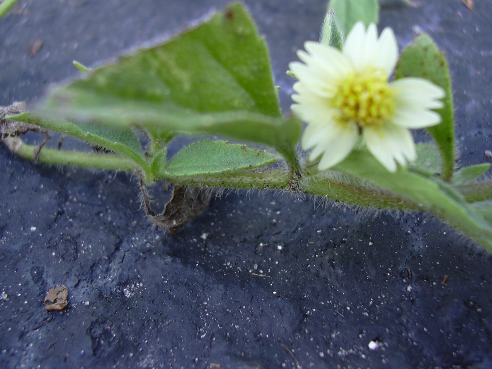 Tridax procumbens (habit). Location: Florida, Sarasota